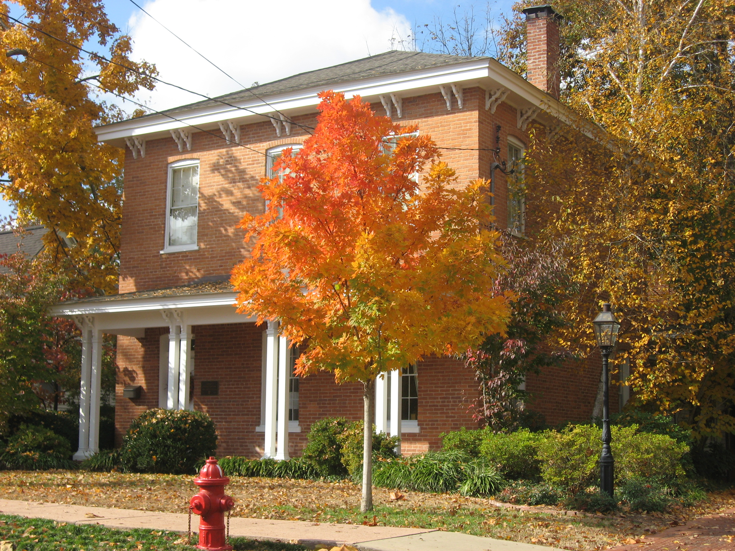 Front and northern side of the Willis Allen House, located at 514 S. Market Street in Marion, Illinois, United States. Built in 1854, it is listed on the National Register of Historic Places.